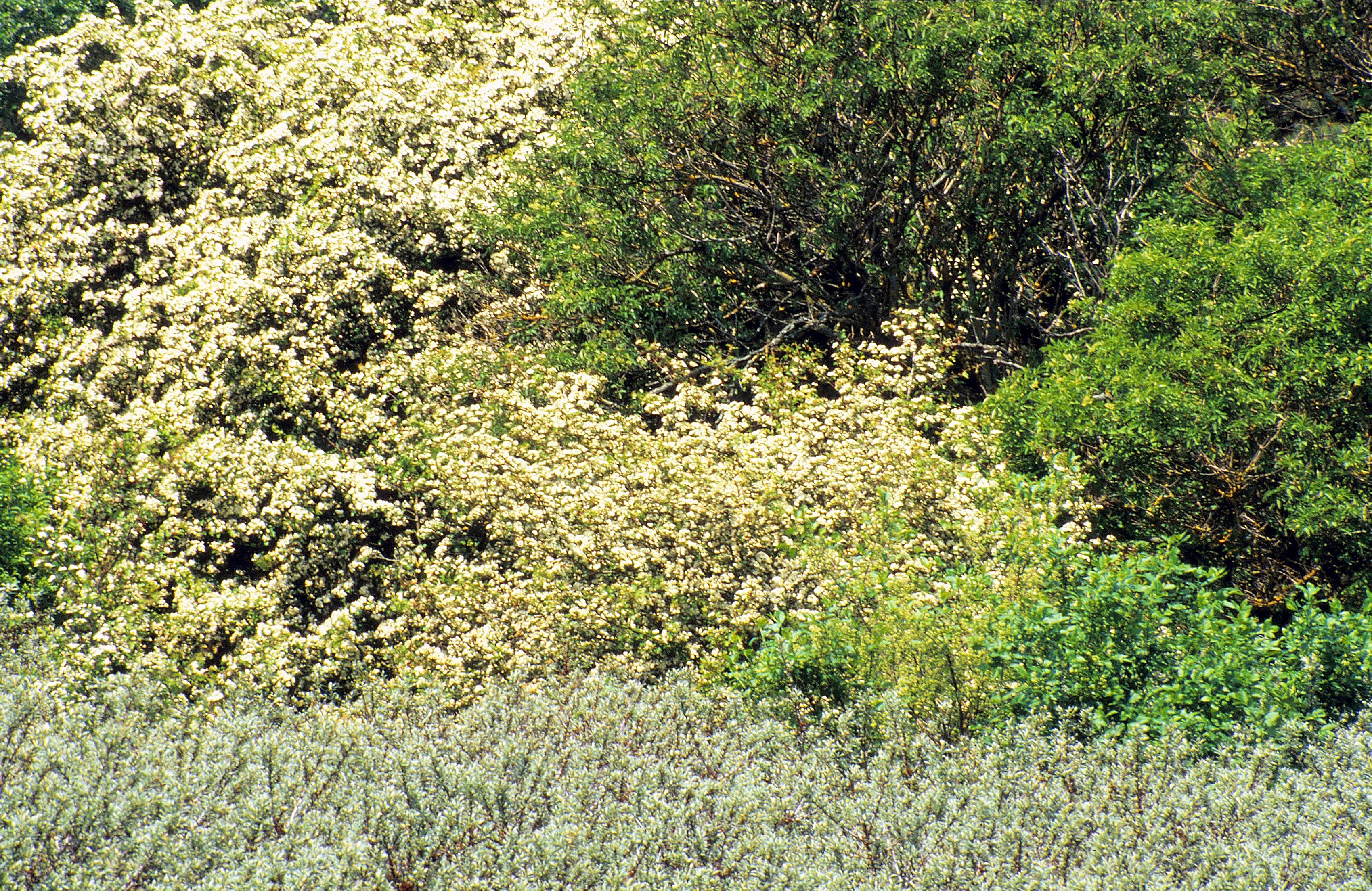 Left the Hawthorn (Crataegus monogyna) seen in flower in may. Kennemerduinen, Zuid-Kennemerland national park, Netherlands.